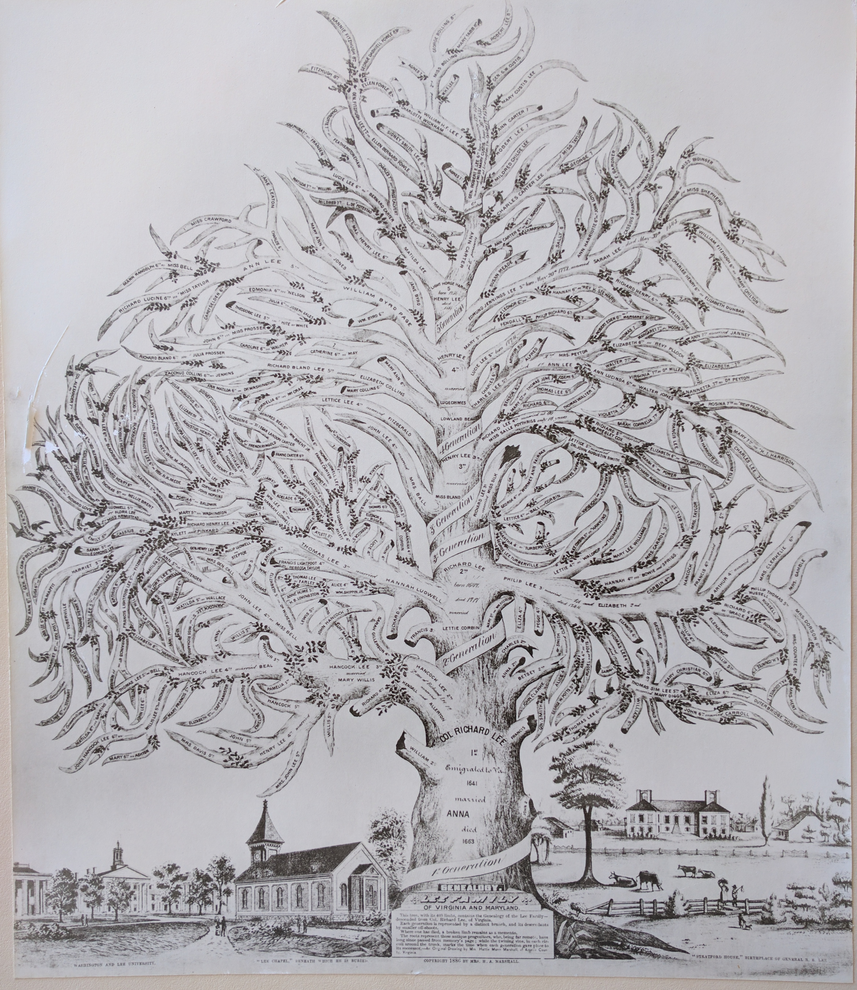 Lee family tree drawing.